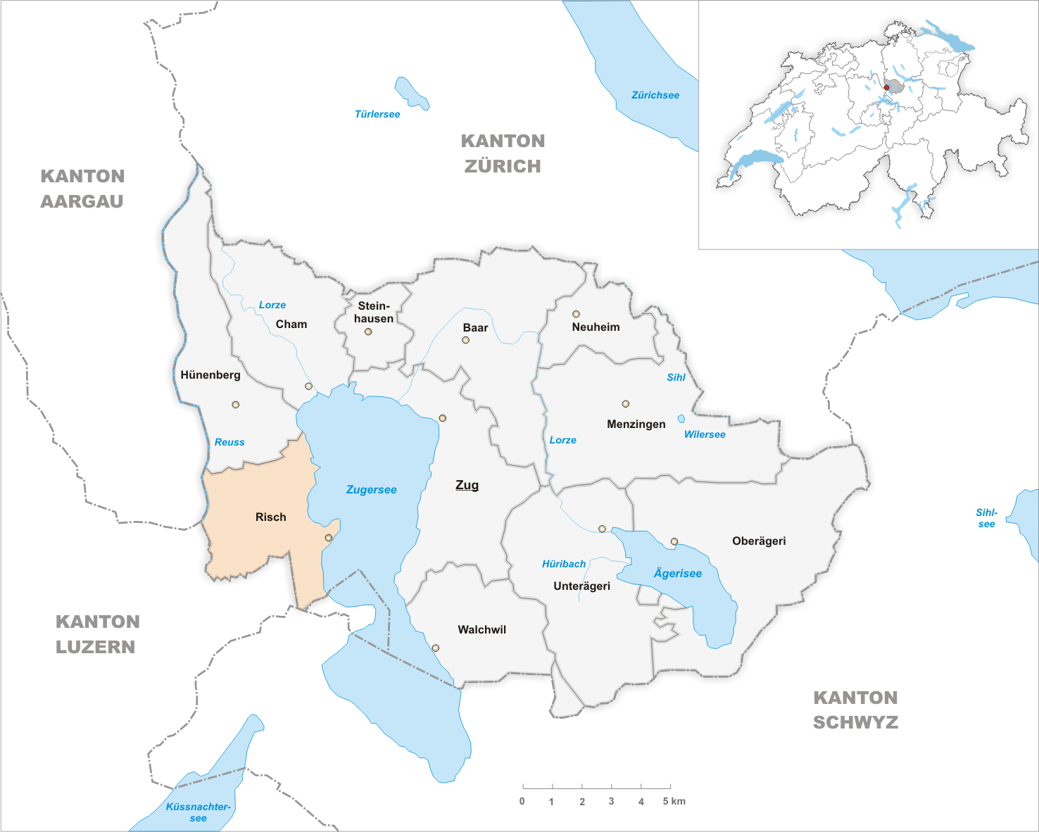 Municipality of Risch